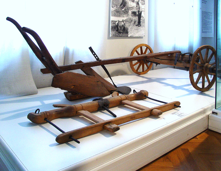 Wooden plow and yoke. Srpski (latinica): Drveni plug i jaram.